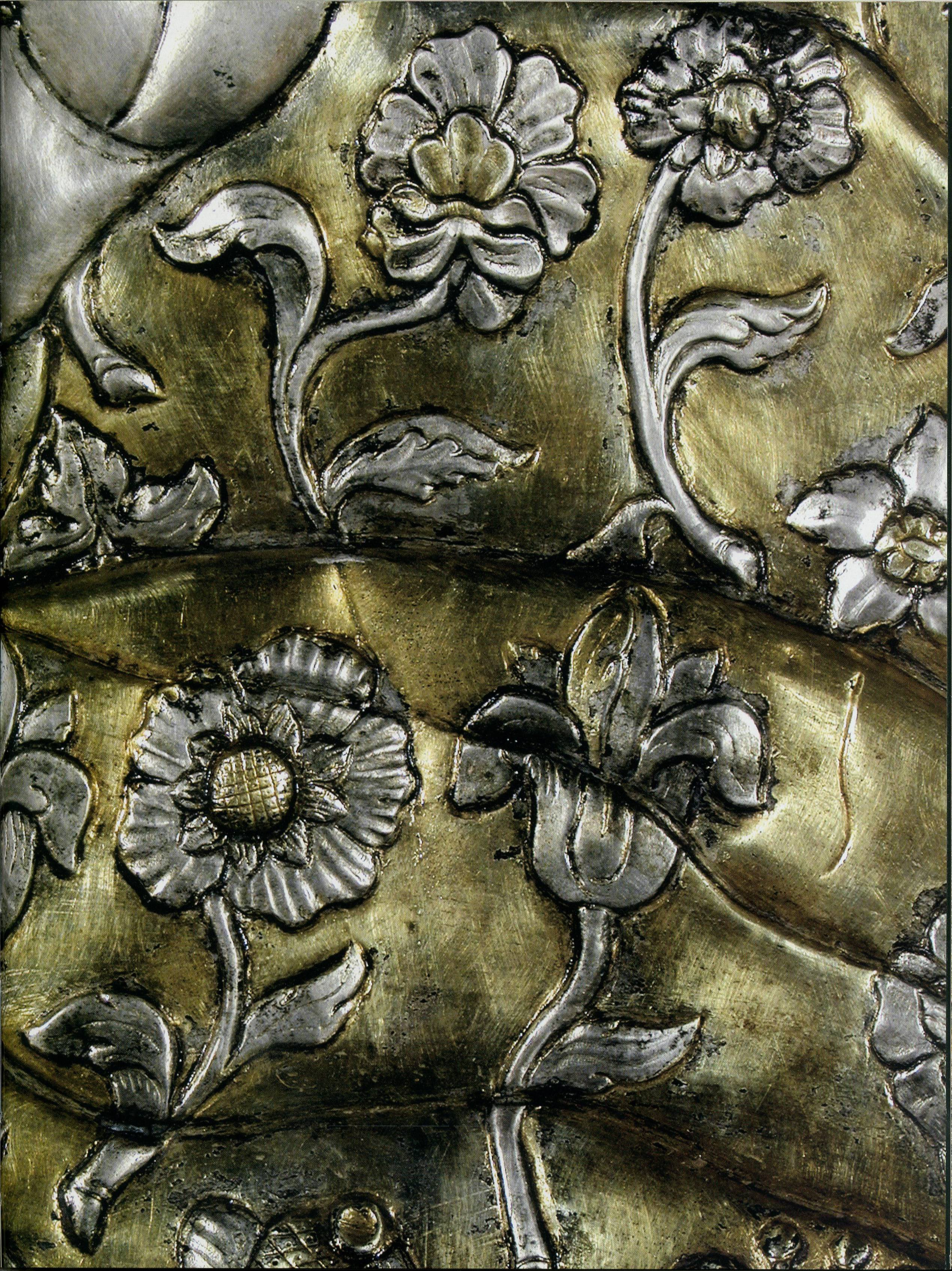 DETAIL OF METAL MOUNTING OF ICON ST. ANTONY OF PADUA. 2d halfofthe 18th c. Metal, minting, gilding. Biaroza, Brest region.